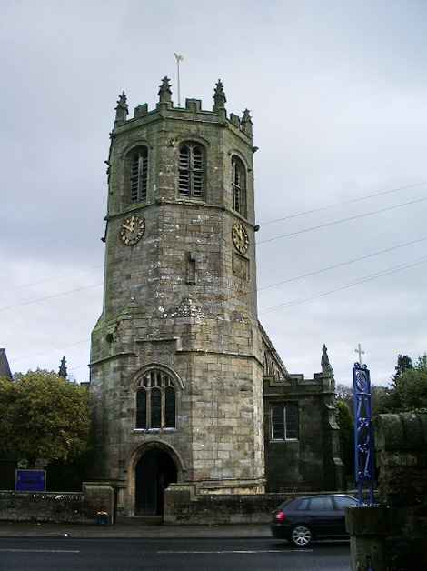 Tower of St Margaret's parish church, Hornby, Lancashire